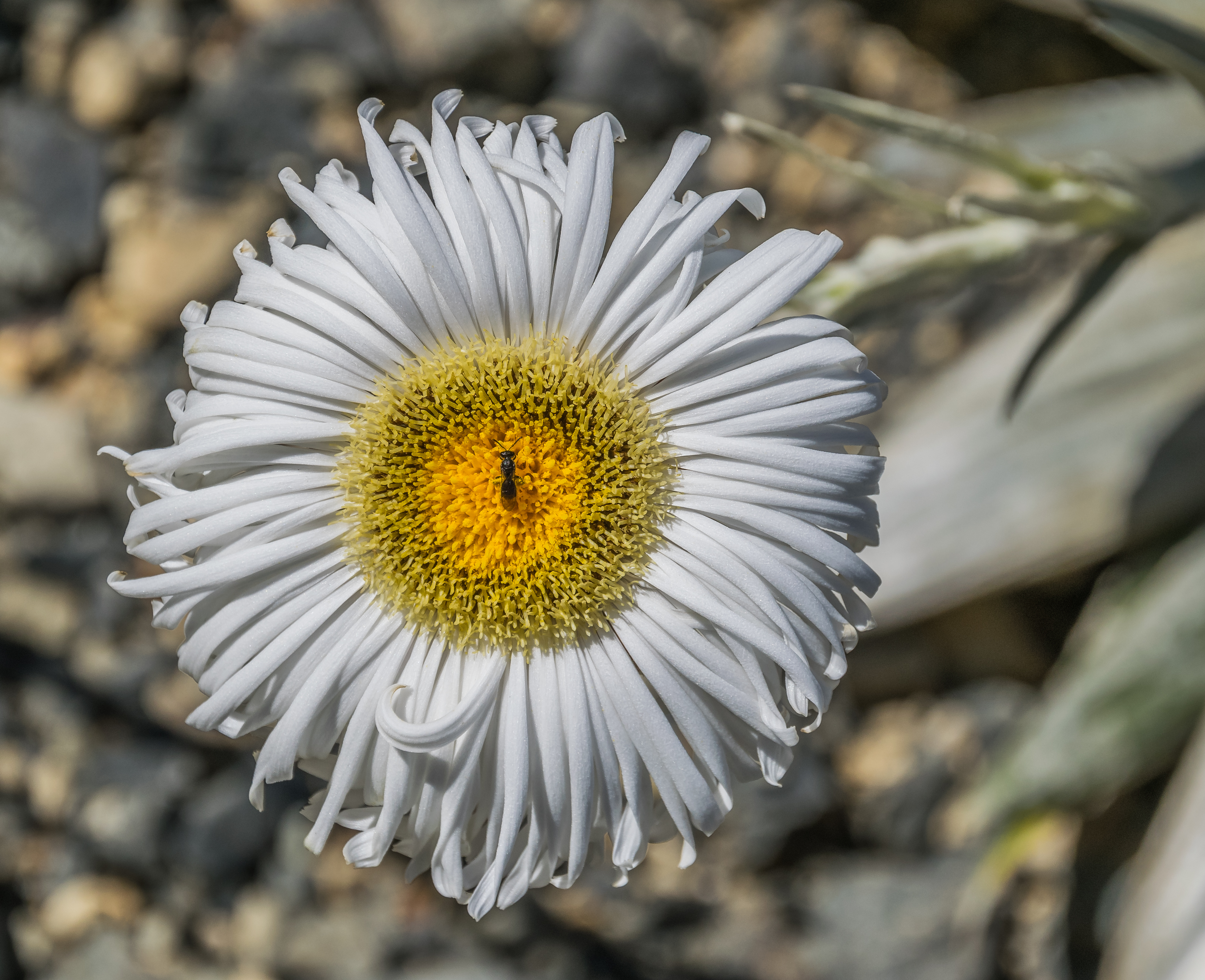 Flower of Celmisia semicordata in Dunedin Botanic Garden, Dunedin, New Zealand